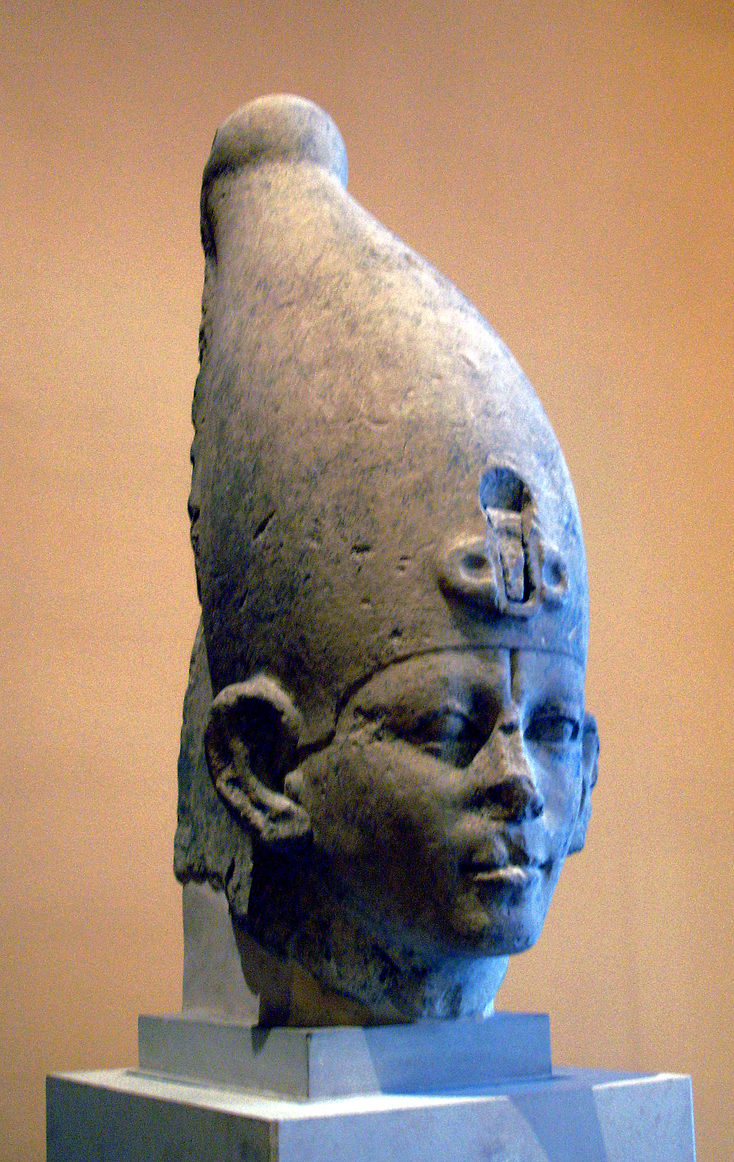 Head of a colossus Osirian king-khutawy Sekhemre Sebekhotep I (?). • Dynasty XIII. Reign of Sekhemre-khutawy Sebekhotep I (?). • Hometown: Medamud. Excavations Bisson de la Roque. Donated by Egypt in 1927, in the distribution of findings. • Material: Limestone. • Dimensions: Height 86.8 cm, width 32.7 cm. • Conservation: Paris. Louvre, E 12924. The identification of the sovereign here represented, is still disputed: Gilbert and Altenmüller, thought they saw here the image of King Amenemhat III. Bisson de la Roque, Corteggiani, Davies, Nelson and Vandier, head of the Louvre identified this as the image of a ruler of Dynasty XIII. Probably the king Sekhemre-khutawy Sebekhotep I, which is found in Medamud certain architectural elements, or perhaps, the king Khutawire Wegaf. Also the large number of statues of King Sensusert III found in Medamud, did think that this might have been equally head, a portrait of that king of the Twelfth Dynasty.